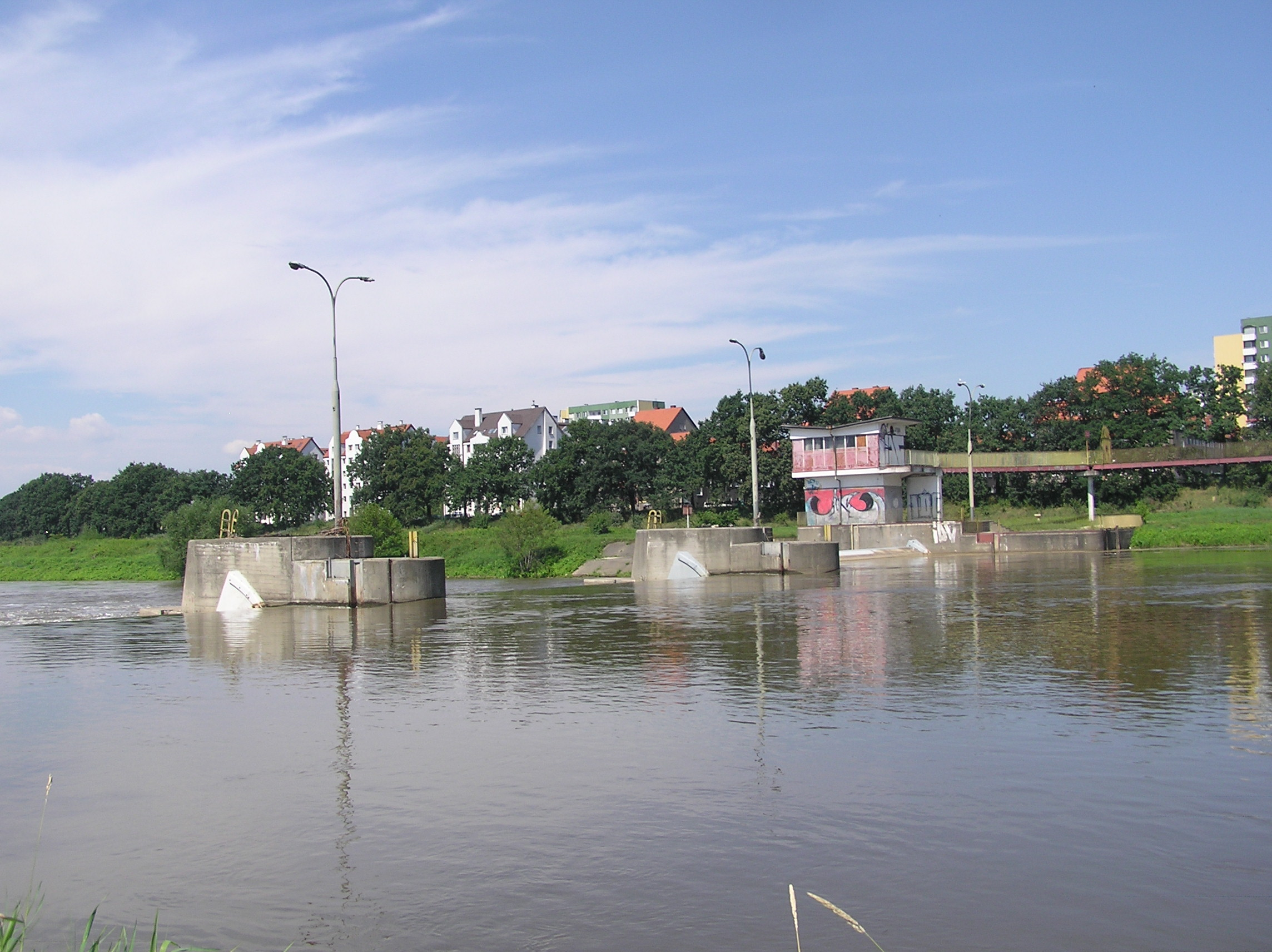 Wrocław, Oder River, Stara Odra, Różanka weir